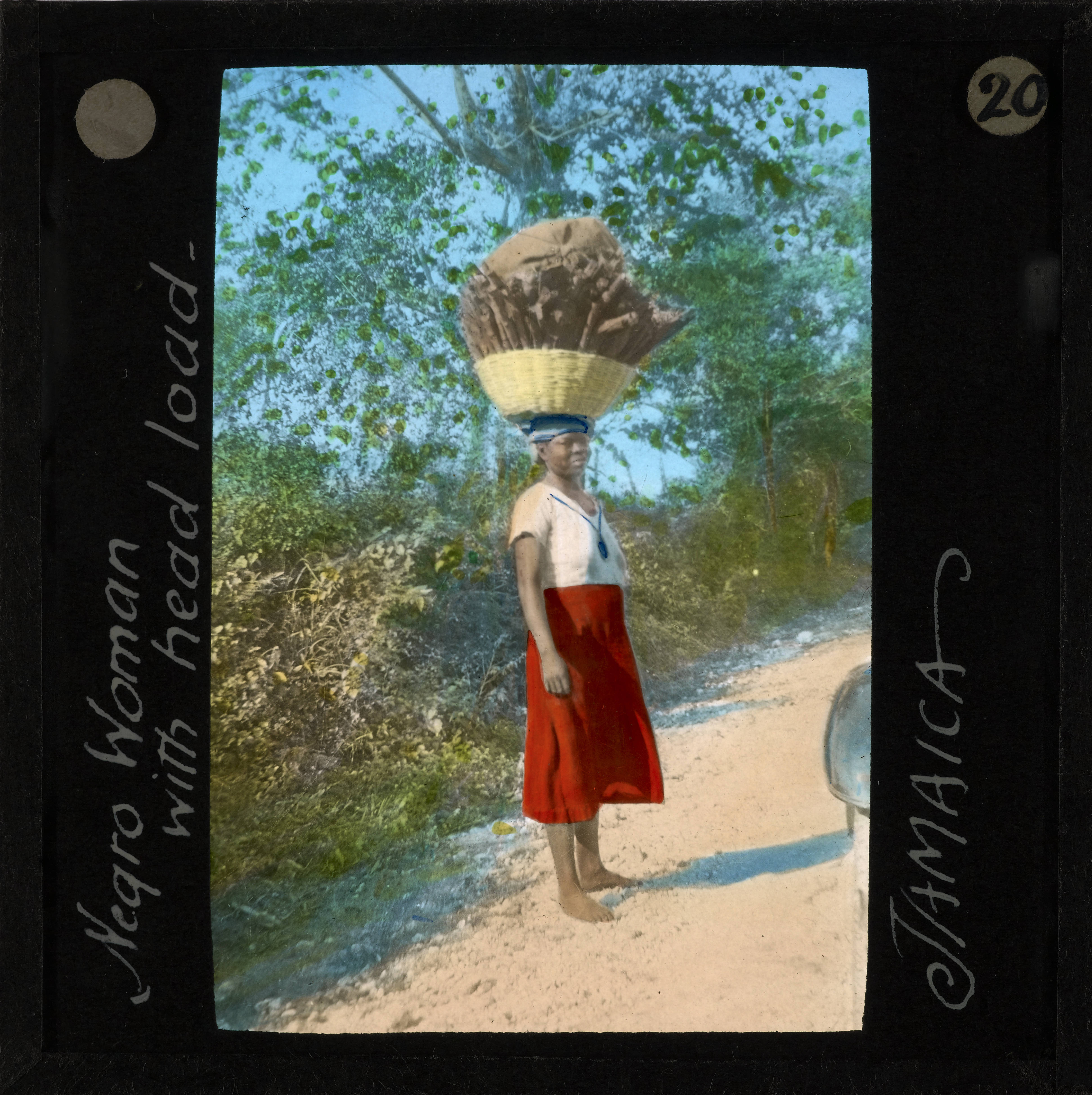 Woman Carrying a Load on Her Head, Jamaica, ca.1875-ca.1940 "Negro woman with head load" Photograph of a woman carrying a load on her head. She is bare foot and has a basket containing a large load balanced on her head.; This belongs to a series of Church of Scotland Foreign Missions Committee lantern slides relating to Jamaica. In 1800 the Scottish Missionary Society sent three missionaries to Jamaica. Two died of yellow fever within weeks of arrival but the third became a pioneer missionary. In 1824 a second venture travelled to Jamaica by invitation of local planters to instruct their slaves. Scottish missionaries worked at Montego Bay in the 19th century and in 1836 the first presbytery of the Jamaican Church was constituted here. Photographer: Unknown Filename: imp-cswc-GB-237-CSWC47-LS11-020.tif Coverage date: circa 1875/1940 Part of collection: International Mission Photography Archive, ca.1860-ca.1960 Type: images Part of subcollection: Photographs from the Centre for the Study of World Christianity, University of Edinburgh, U.K., ca.1900-ca.1940s Repository name: Centre for the Study of World Christianity Archival file: impaunpub_Volume7/1795.url Repository address: The University of Edinburgh School of Divinity, New College, Mound Place, Edinburgh EH1 2LX, United Kingdom Geographic subject (country): Jamaica Format (aacr2): 1 lantern slide : 8 x 8 cm. Geographic subject (continent): North and Central America Rights: Contact the repository for details. Part of series: Jamaica LS11 Repository Subject (lcsh Keyword): Women; Manual work Date created: circa 1875/1940 Publisher (of the digital version): University of Southern California. Libraries Subject (aat genre): portraits Format (aat): lantern slides Legacy record ID: impa-m69356 Access conditions: File: GB 237 CSWC47/LS11/20